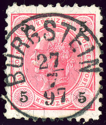 Austrian KK stamp, 5 kreuzer, issue 1890, grotesk circle cancelled BÜRGSTEIN, Bohemia in 1897. Michel N°53.